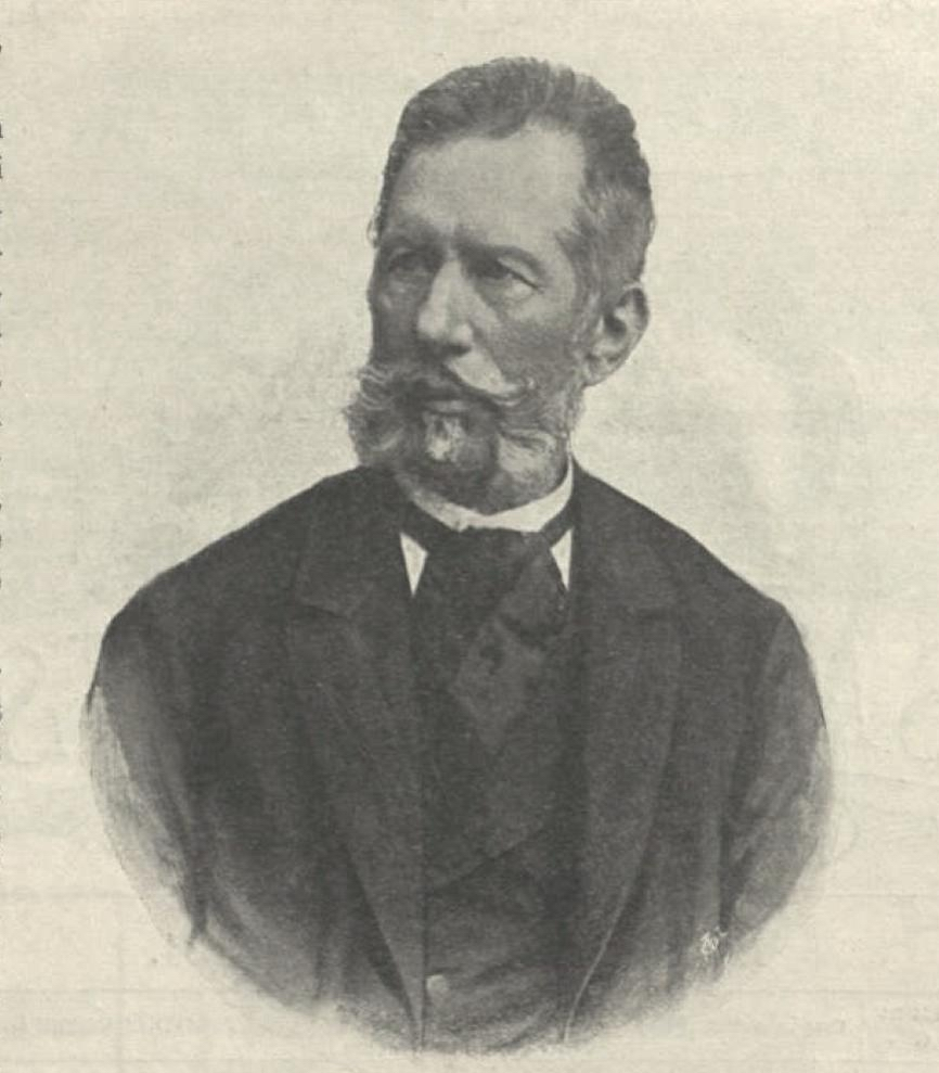 János Vajda